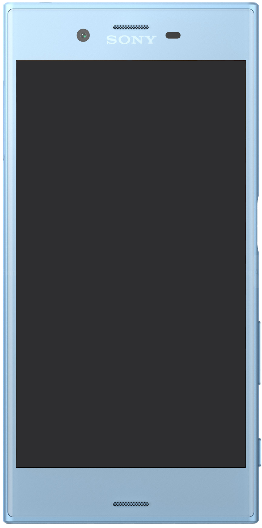 Sony Xperia XZs Ice Blue